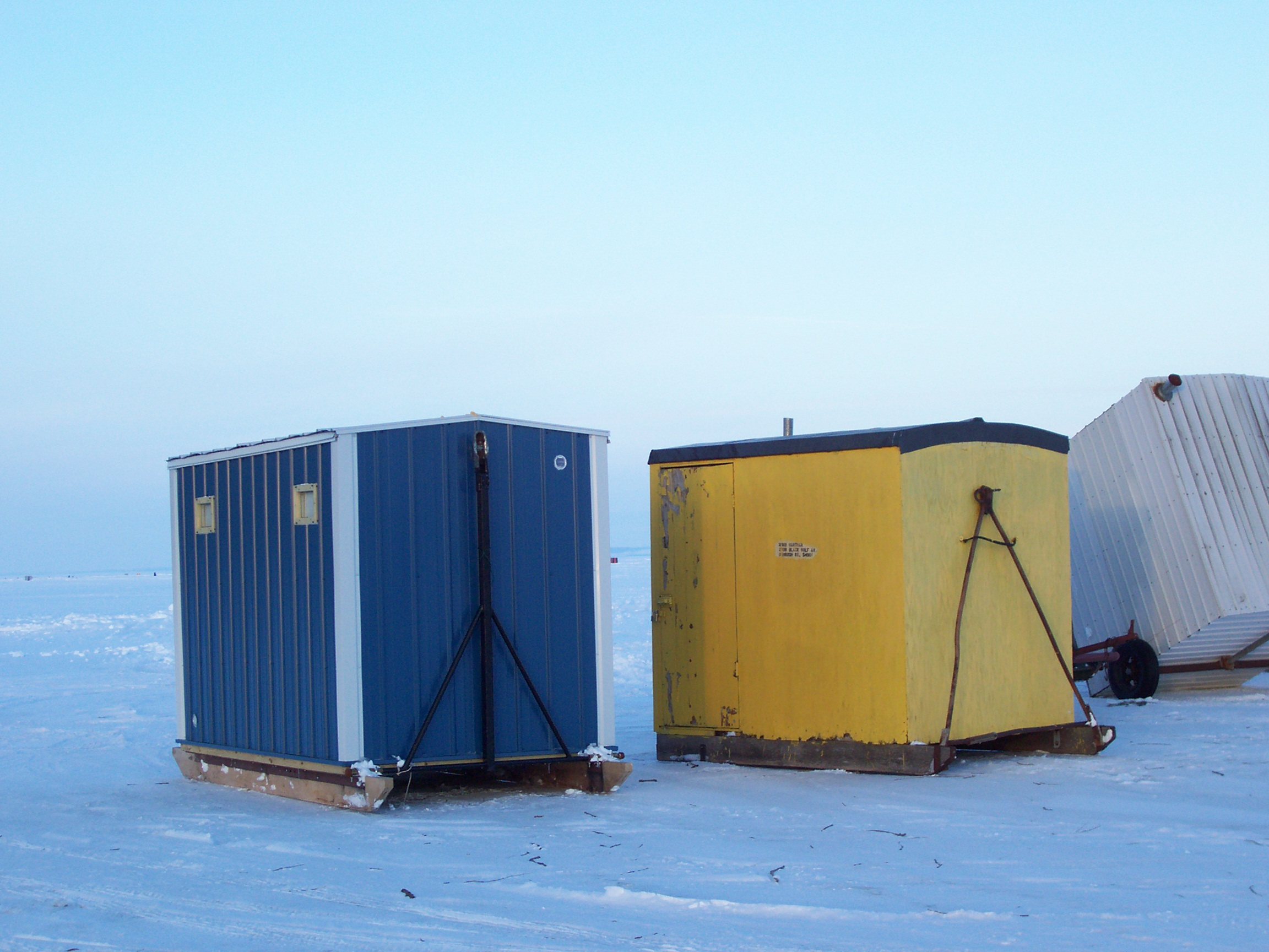 Hundreds of ice shanties line the shore of Lake Winnebago now that sturgeon spearing is done.